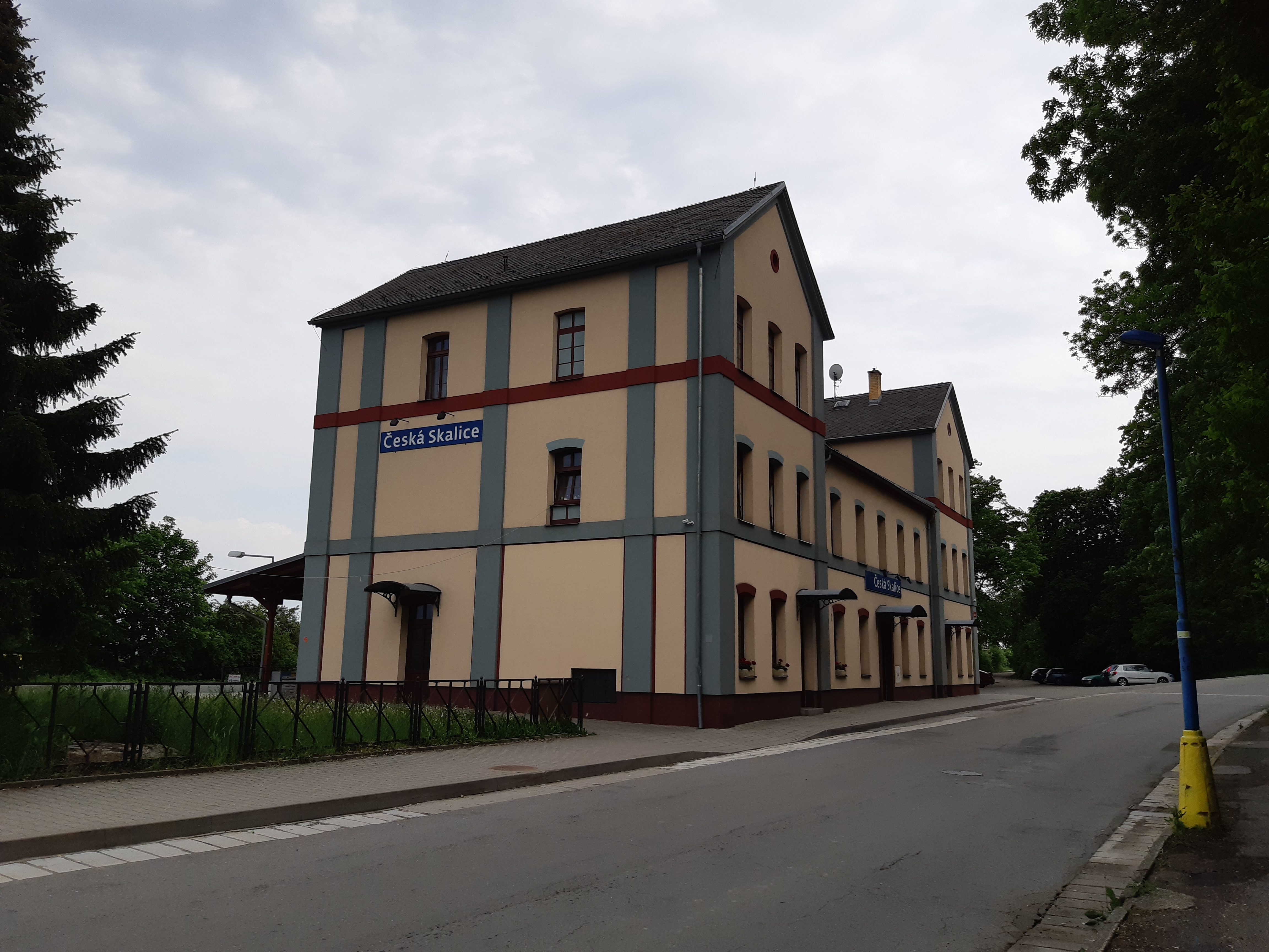 Train station building in Česká Skalice, left-side view from the street.